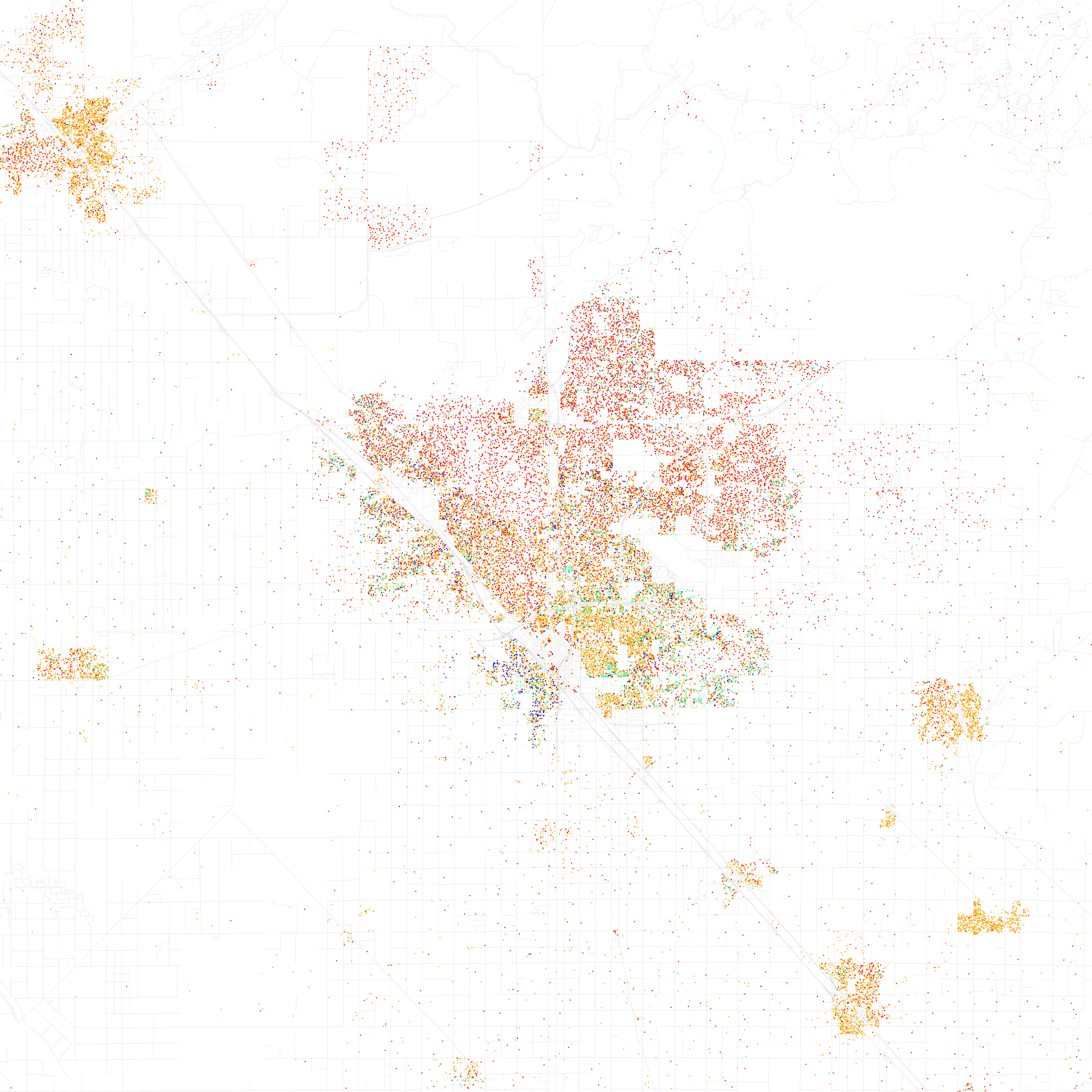 Maps of racial and ethnic divisions in US cities, inspired by Bill Rankin's map of Chicago, updated for Census 2010. Red is White, Blue is Black, Green is Asian, Orange is Hispanic, Yellow is Other, and each dot is 25 residents. Data from Census 2010. Base map © OpenStreetMap, CC-BY-SA